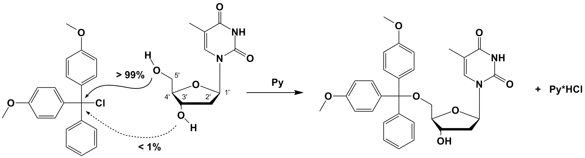 Regioselective tritylation of thymidine with dimethoxytrityl chloride